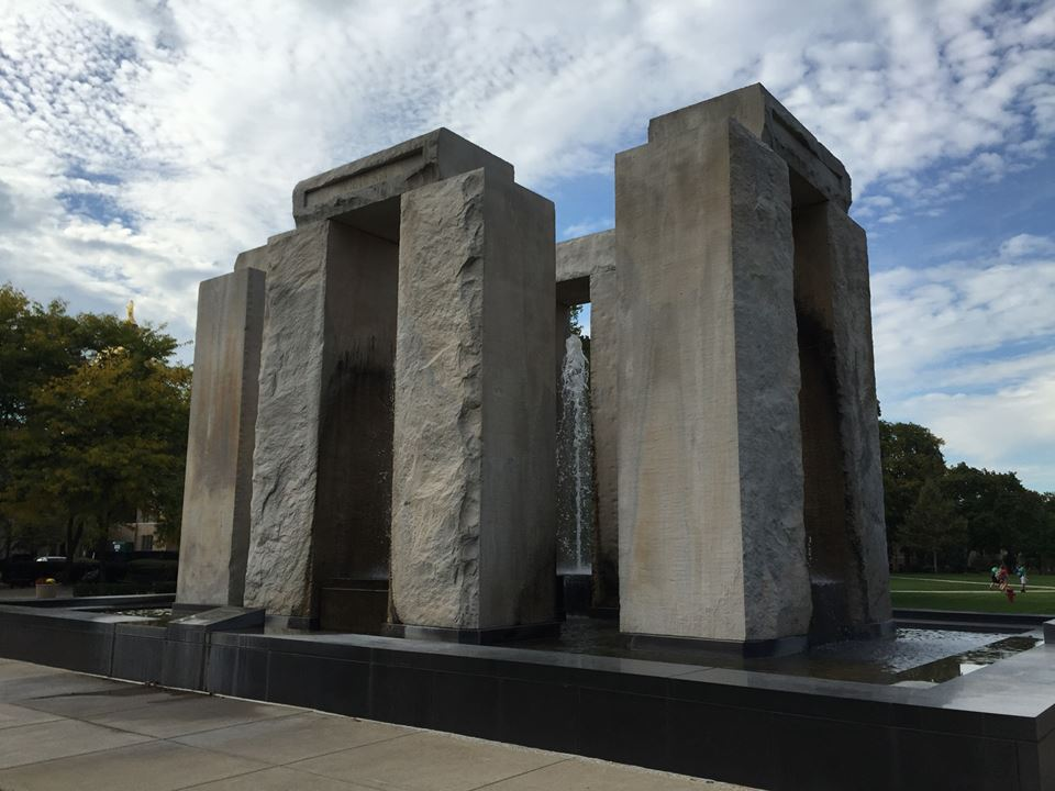 Veteran Monument, St Joseph's Lake and Dome